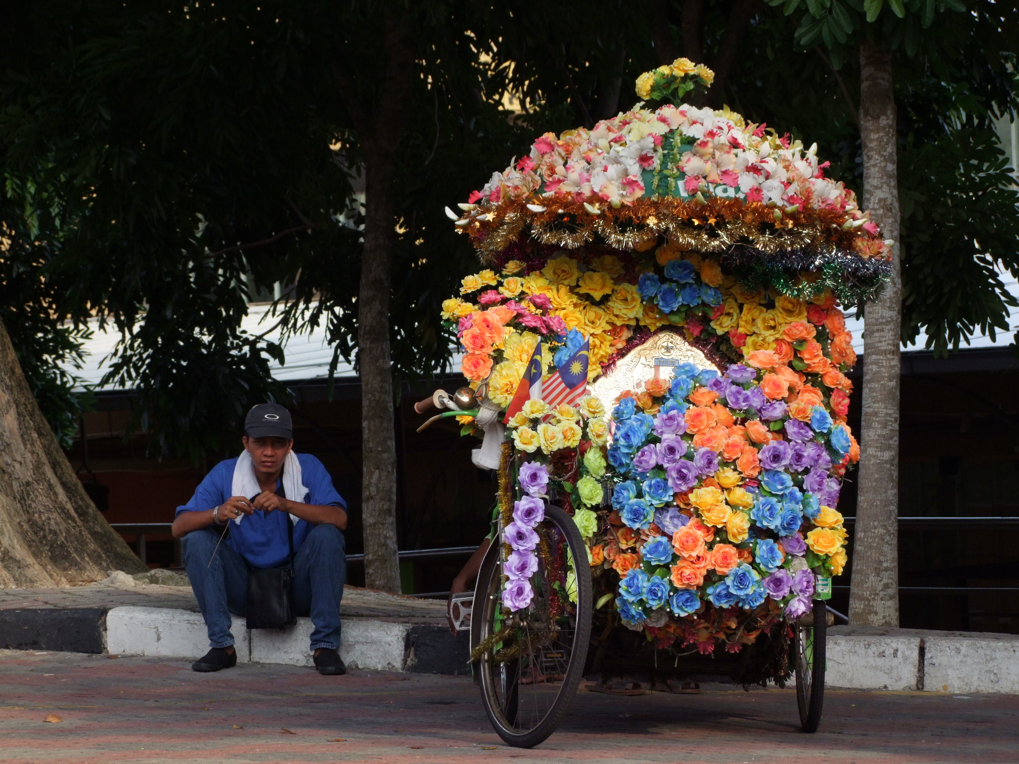 Heavily decorated bicycle rickshaw in Melaka